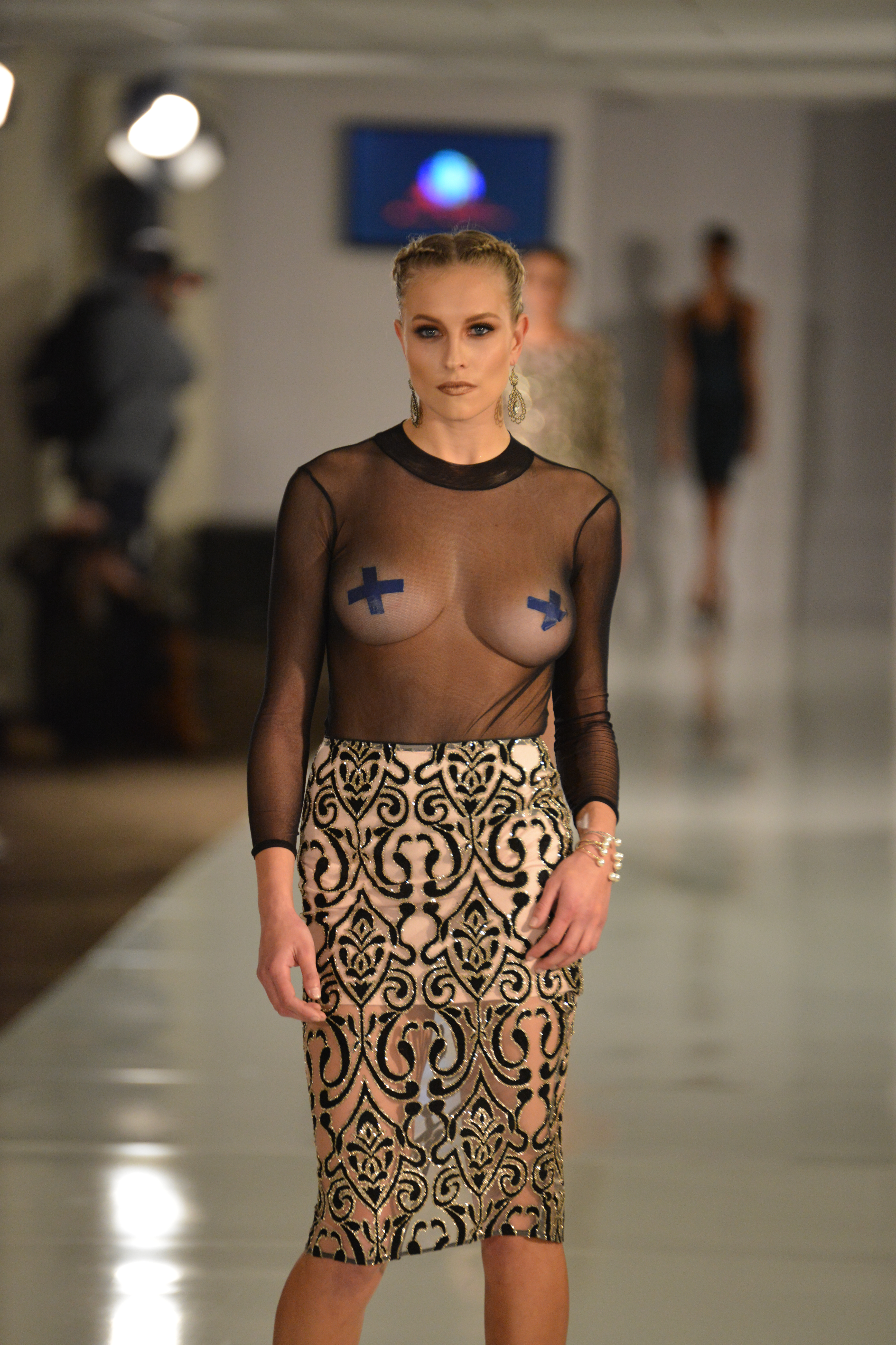 Crystal Couture Fashion Show & Sale